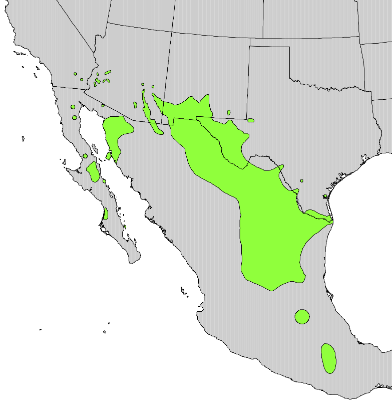 Range map of Koeberlinia spinosa